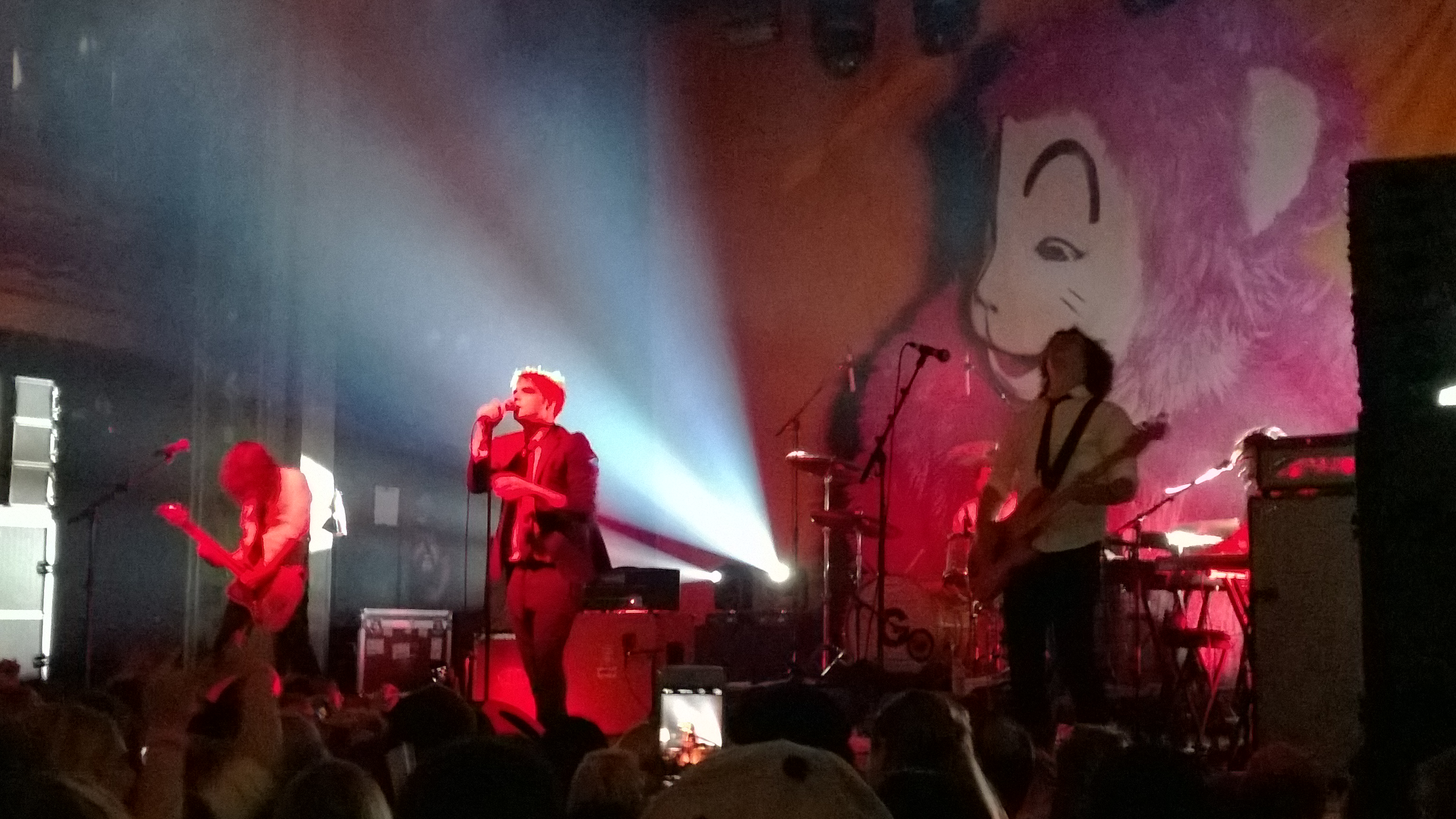 Gerard Way performing at Webster Hall in New York, USA, on October 23th, 2014.